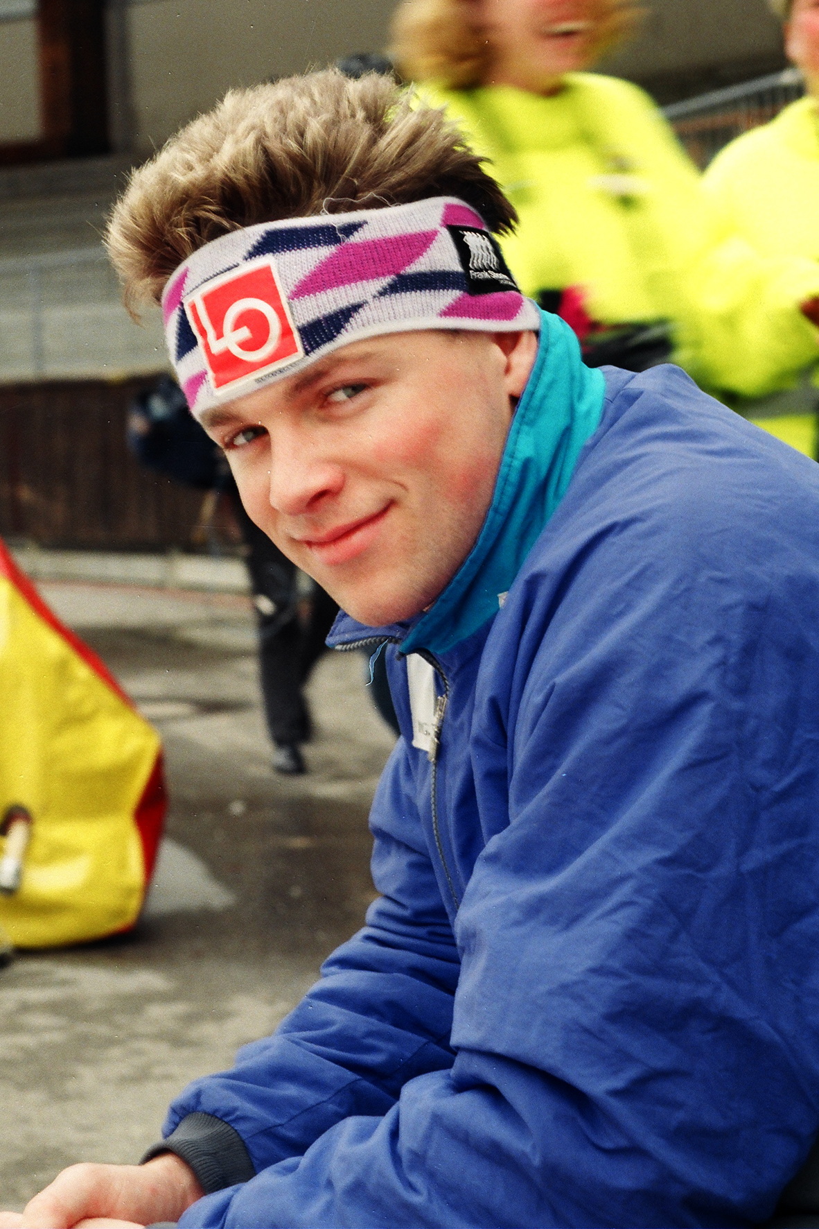 Roger Strøm,speedskater from norway.